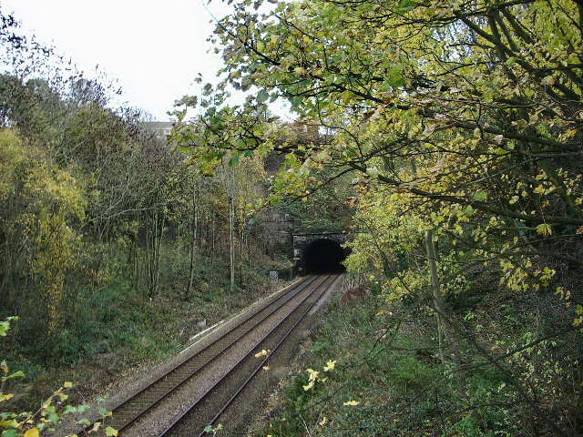 Entrance to Hipperholme Tunnel